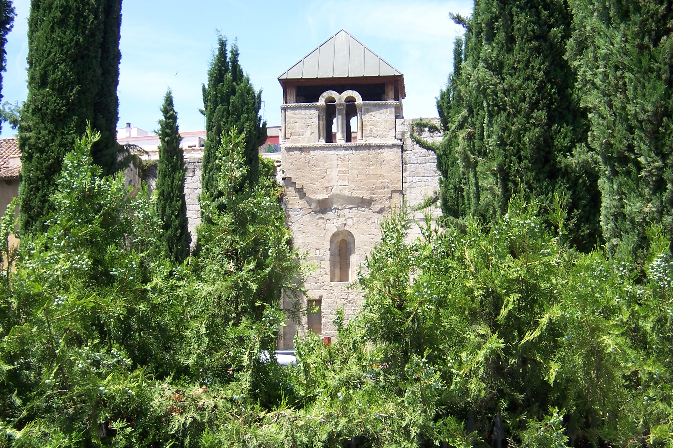 Ruins of the ancient collegiate church of Santa María (13th century) in Valladolid (Spain). Debris of the romanic tower (with ornaments) which belonged to a previous collegiate church ordered by the earl of Ansúrez, founder of the city.